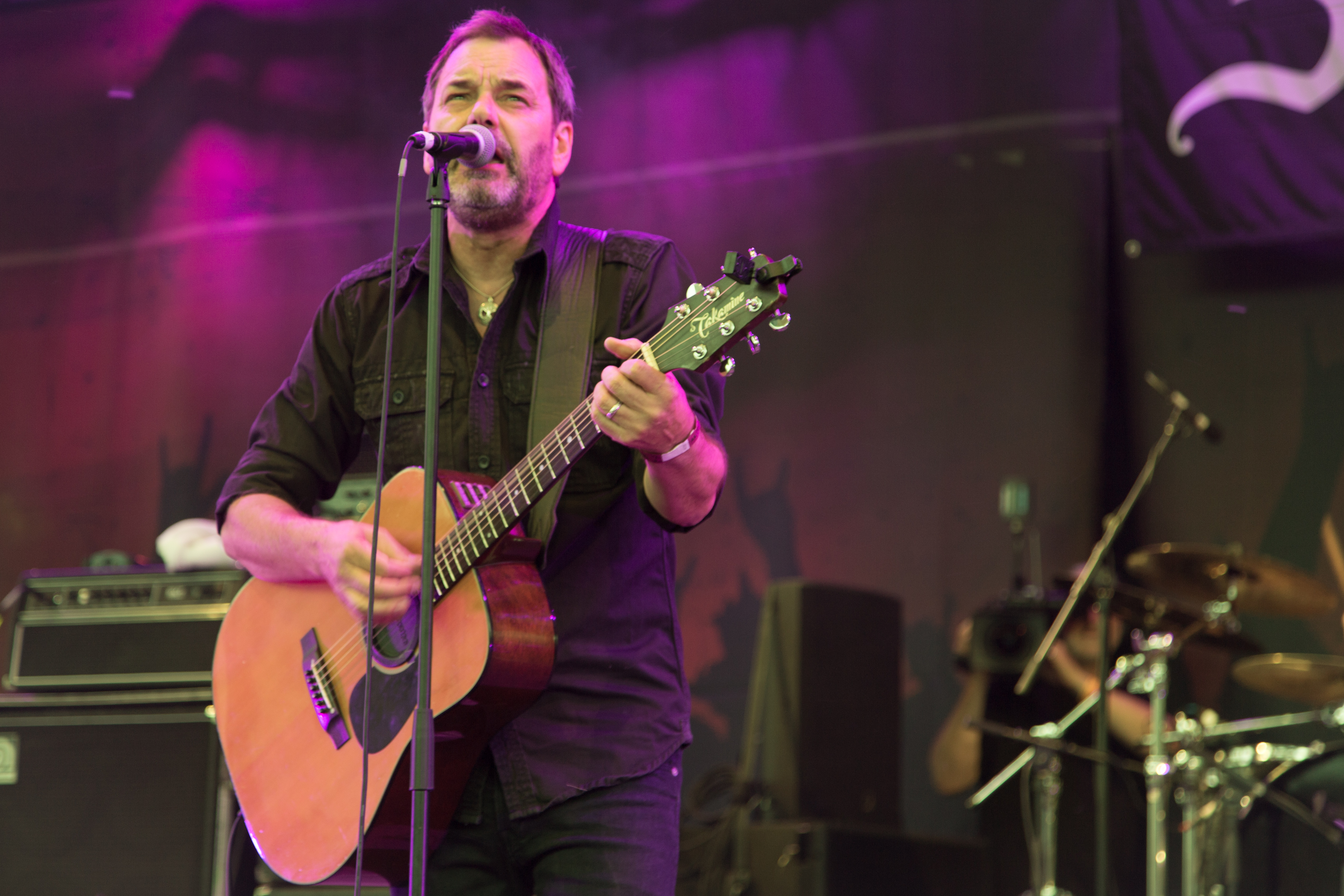 Skyclad performing live at Rock Hard Festival 2017, Gelsenkirchen, Germany